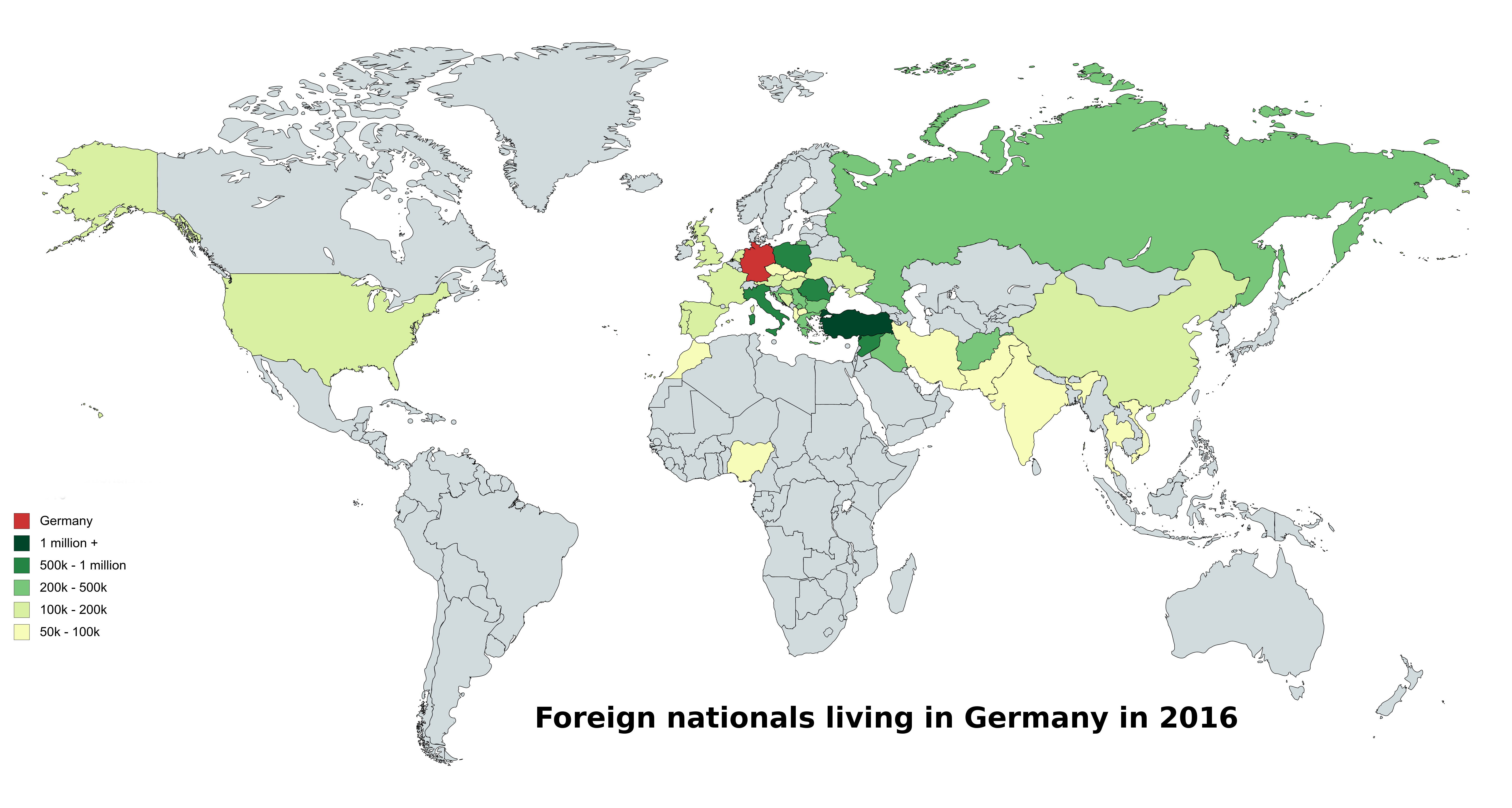 Color graded map of numbers of foreign nationals in Germany in the year 2016